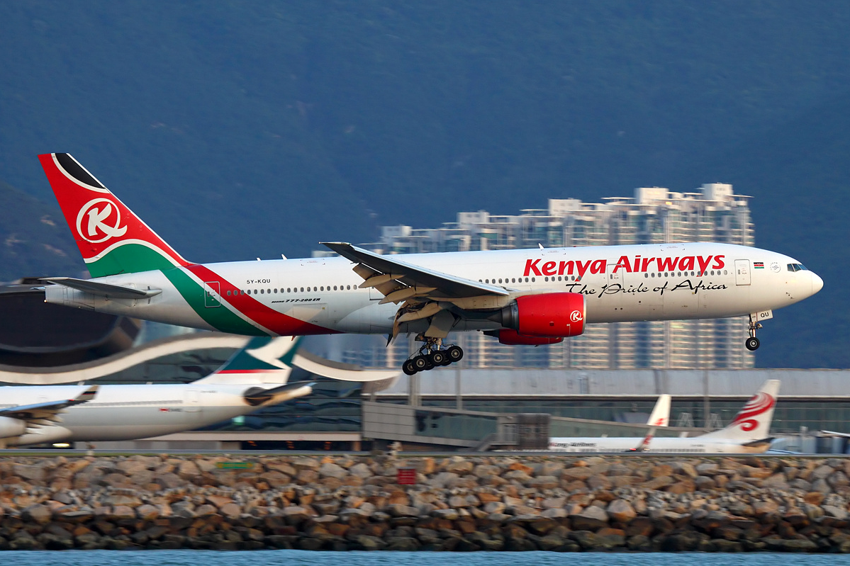 A Kenya Airways Boeing 777-2U8/ER about to land at Chek Lap Kok International Airport (HKG / VHHH)